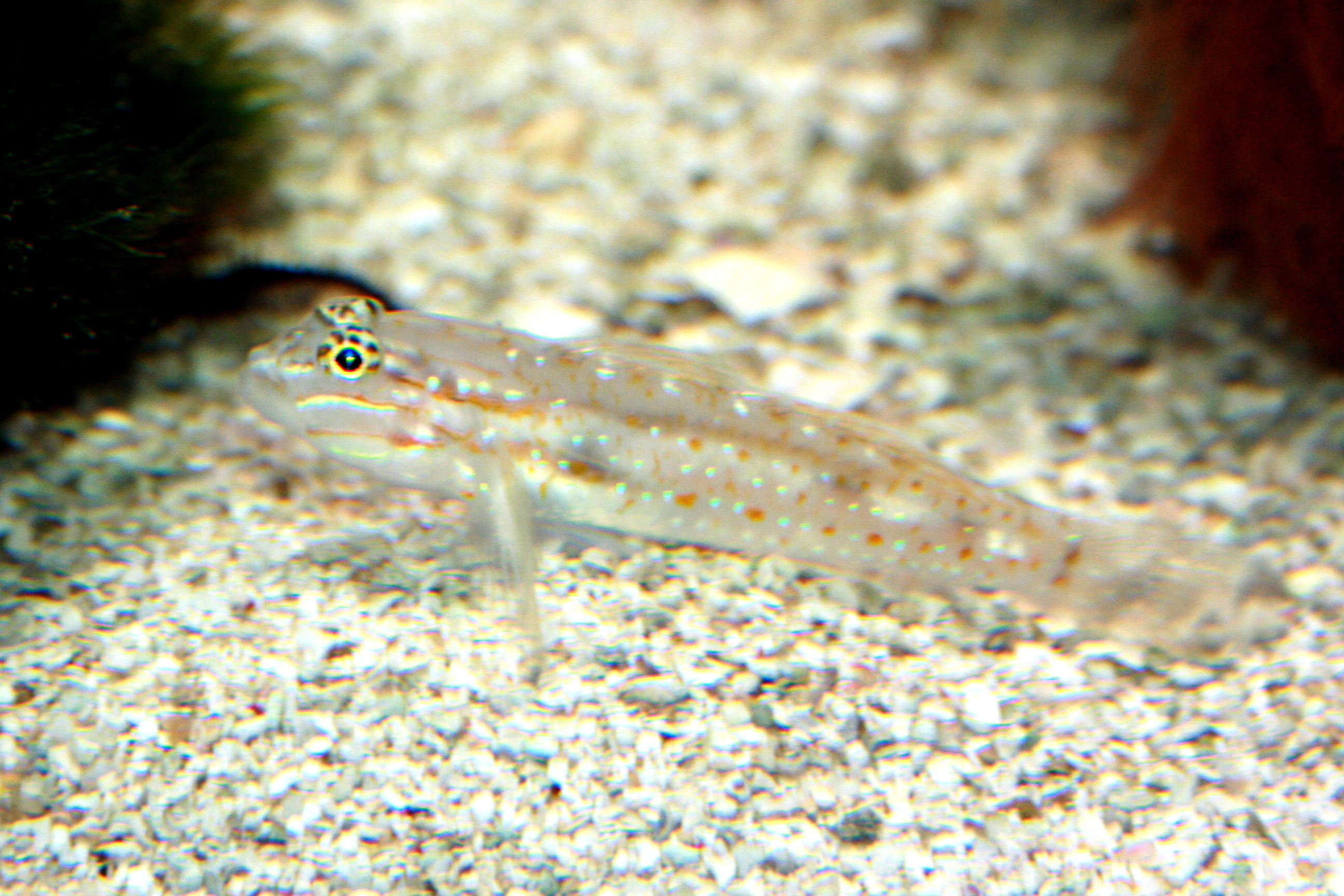 Coryphopterus glaucofraenum at Shedd Aquarium. If you know the species of this fish please contact me Here. Thank you!